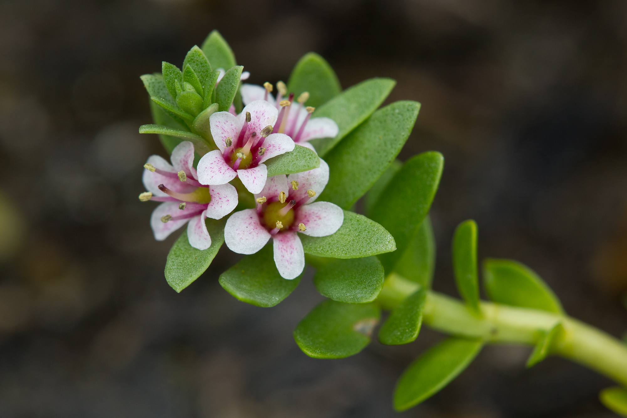 Close-up of flowering Sea milkwort, Glaux maritima – a salt-tolerantly plant.